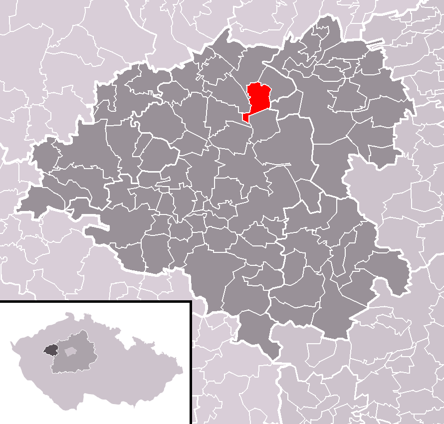 Location of Krupá municipality within Rakovník District and (identical) administrative area of Rakovník as a Municipality with Extended Competence.